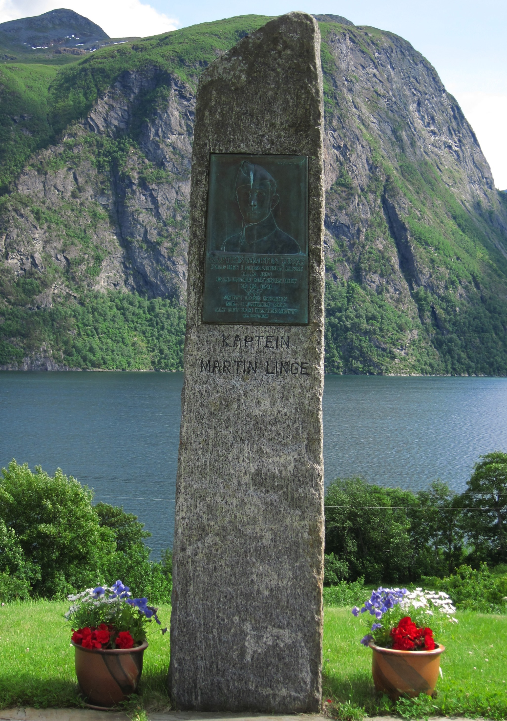 Martin Linge memorial at Linge farm, Valldal, Norway